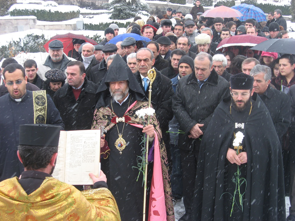 Commemoration of Hrant Dink in Vanadzor, Armenia